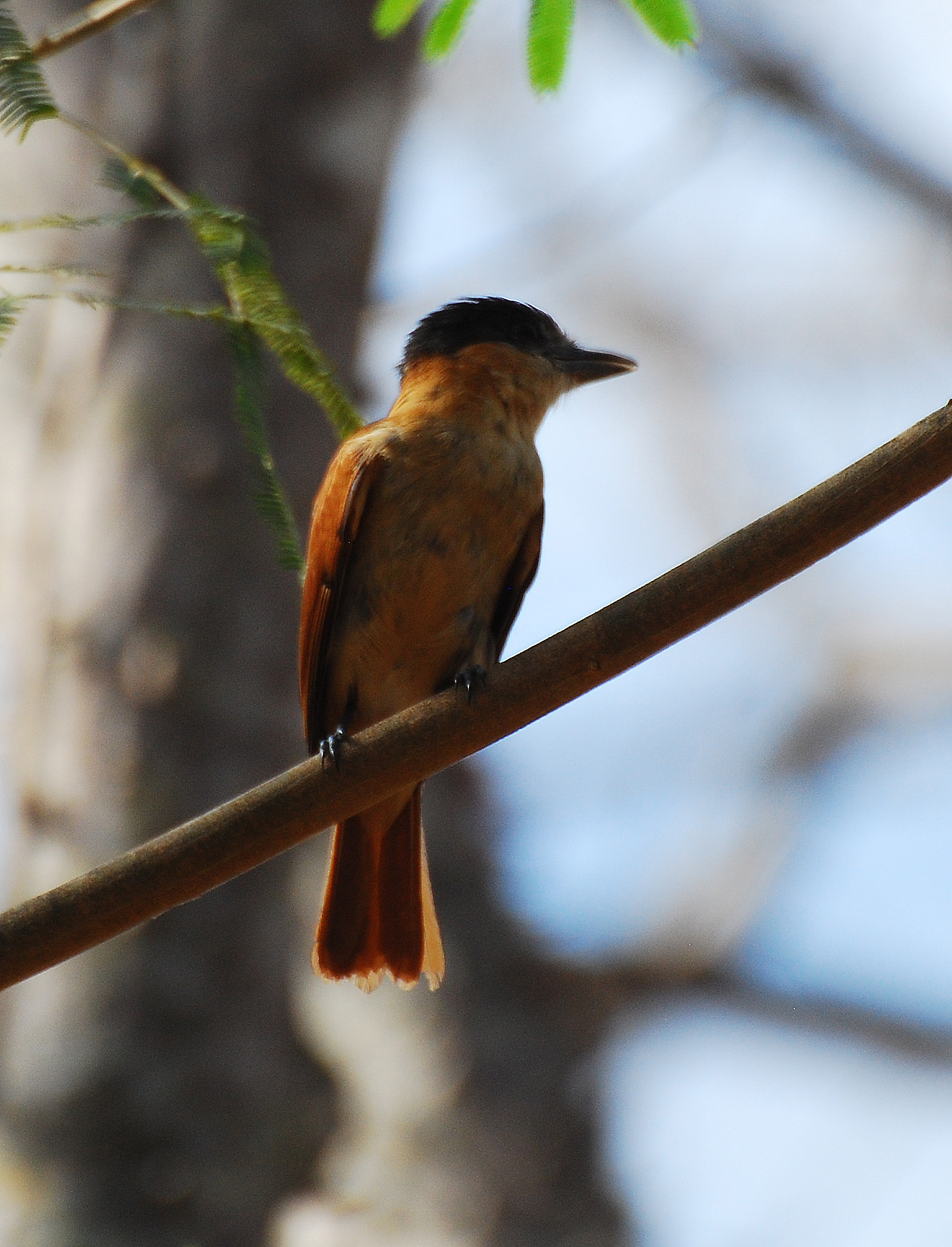 Rose-throated Becard (Pachyramphus aglaiae) at La Ensenada, Costa Rica, 080222. Pachyramphus aglaiae.